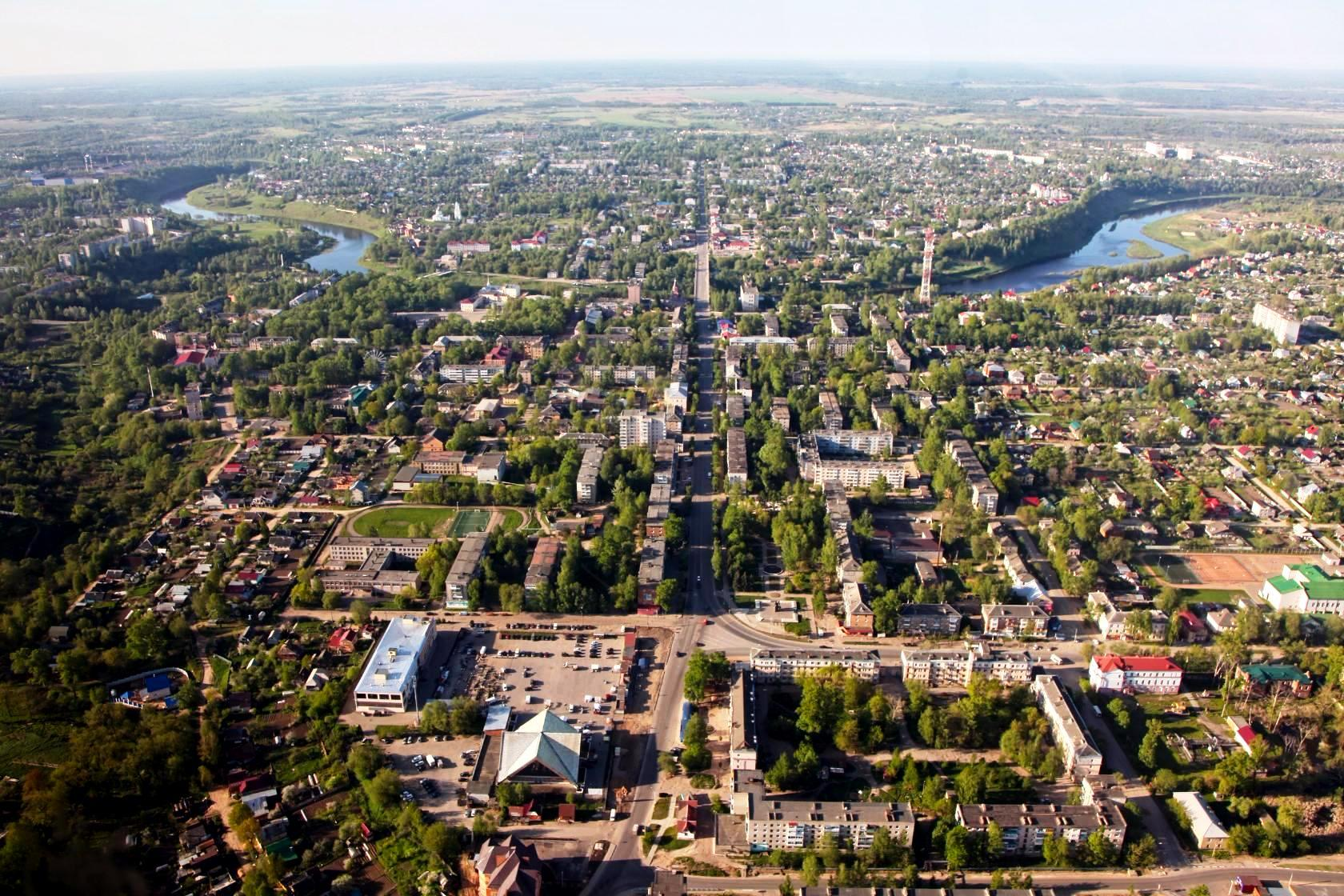 Rzhev